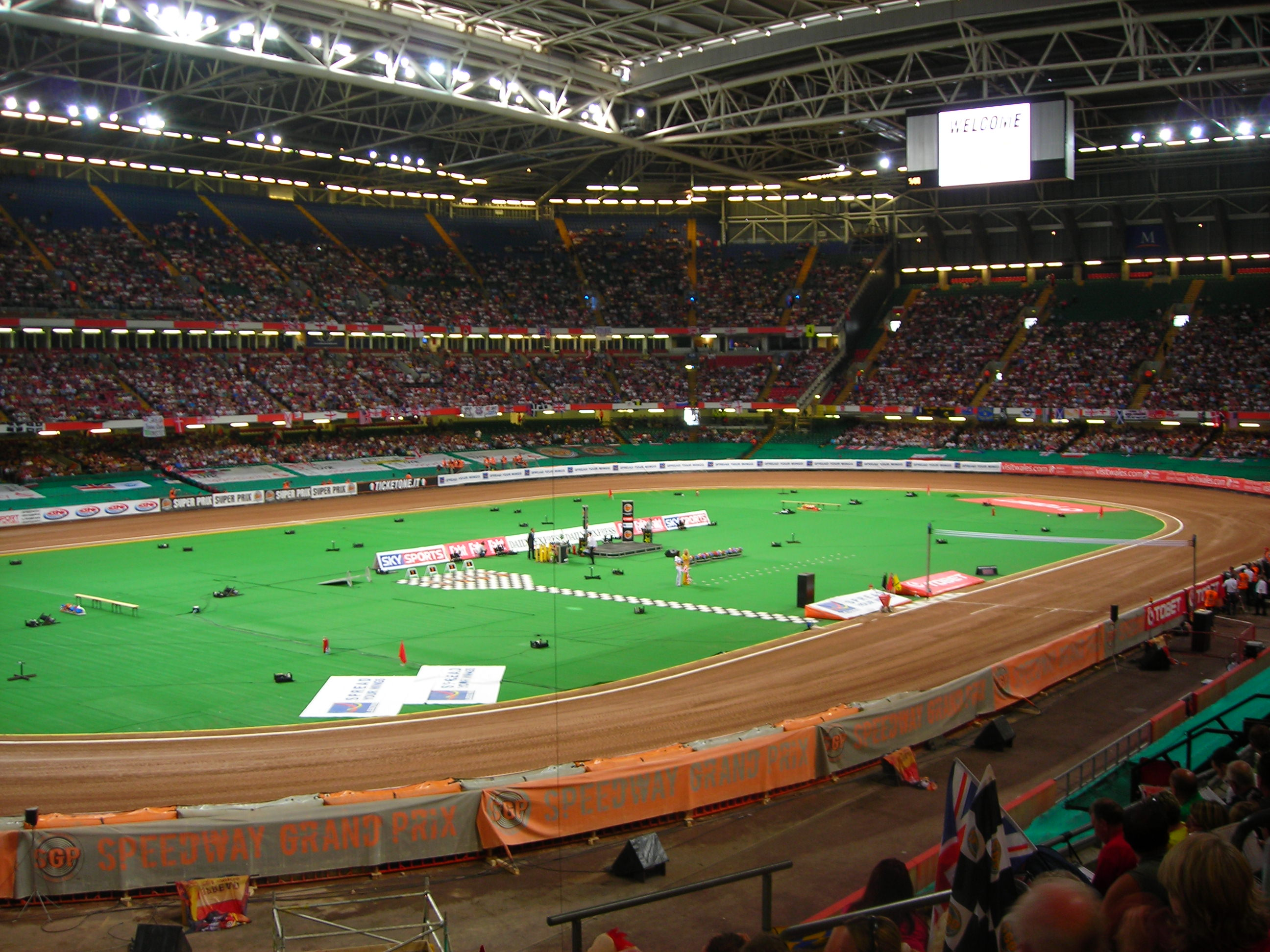 The british speedway GP in Cardiff 2009